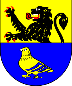 Coat of arms of Doveren